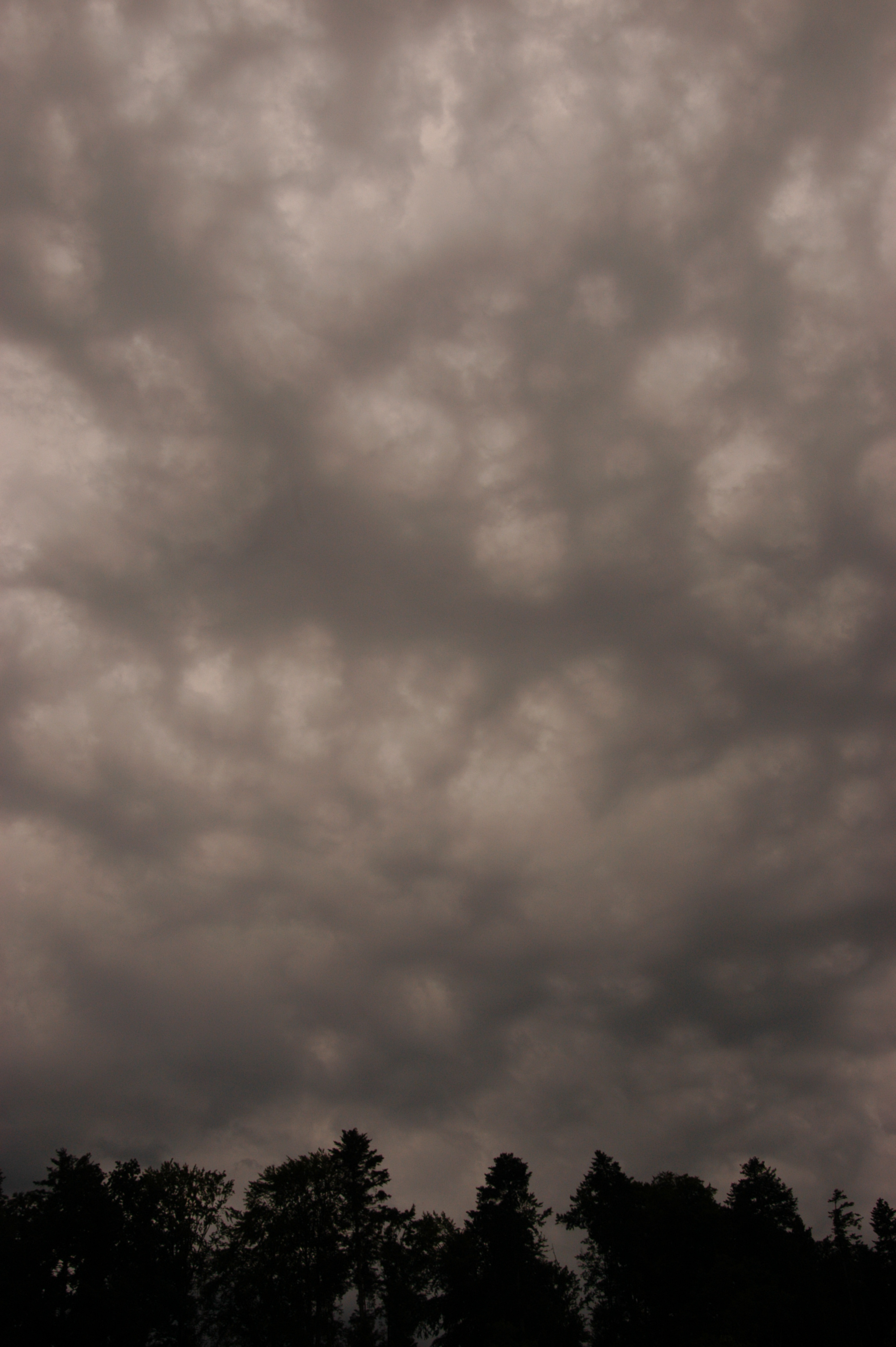 Stratocumulus lacunosus shortly before a thunderstorm